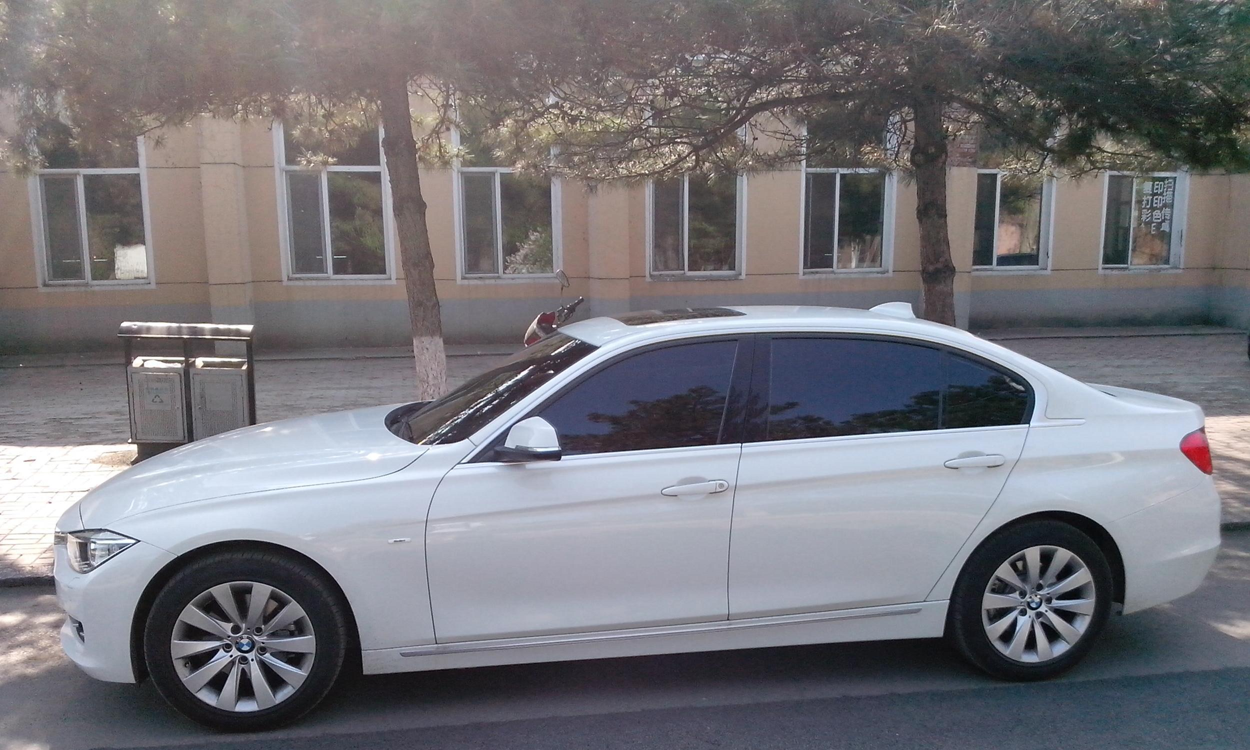 Long-wheelbase BMW 3 Series (F35) in China. The chrome decoration on the doors distinguishes the F35 from the standard F30.